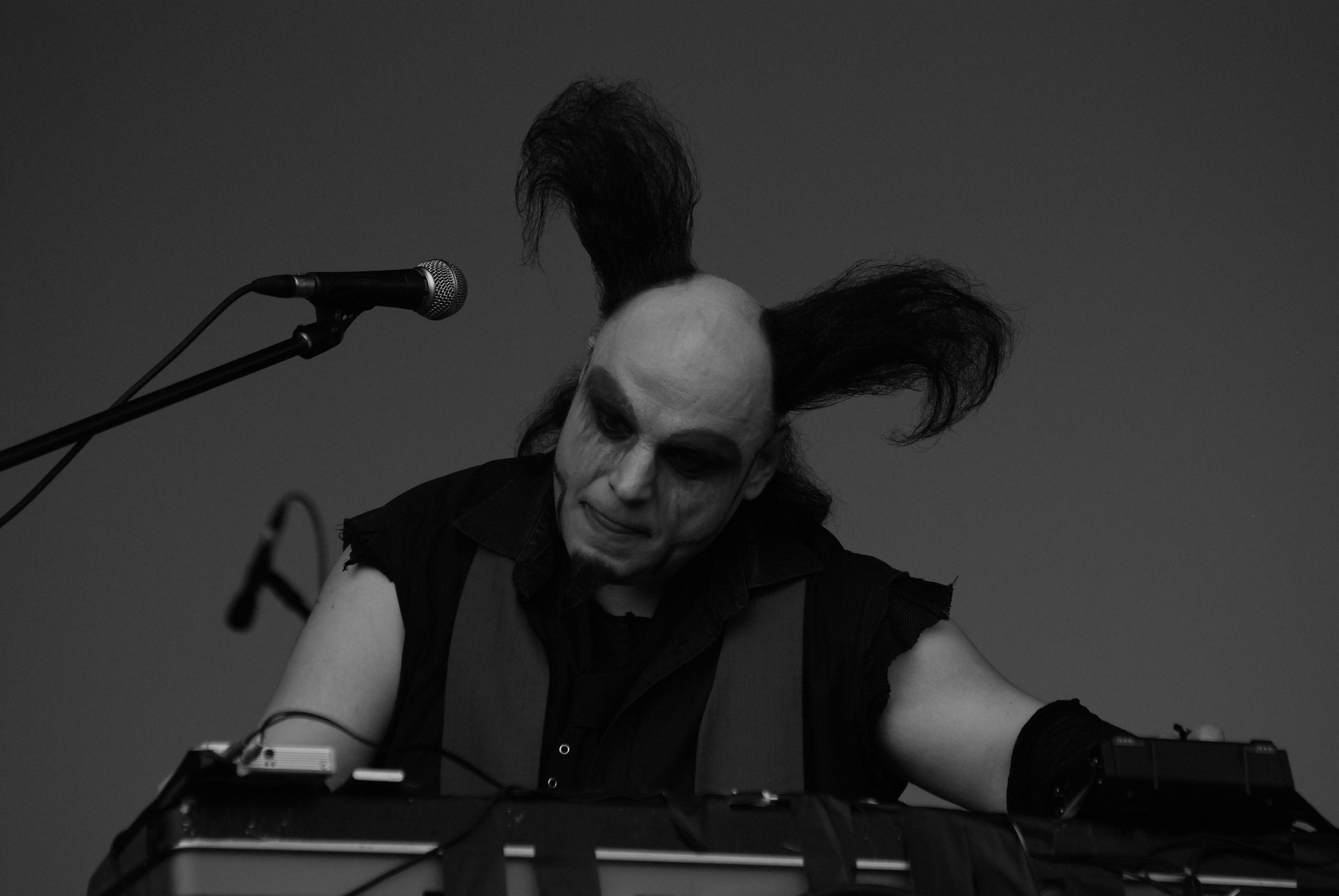 Taking of this photo was in cooperation with wRacku Festiwal